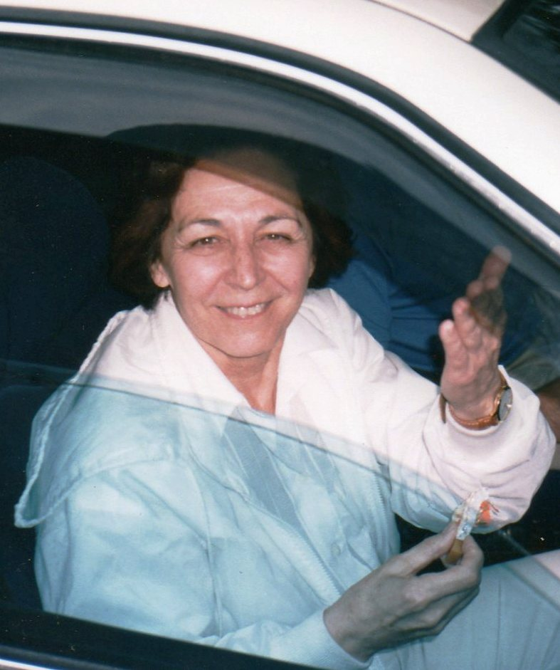 Marie Andrée Bertrand (farewell from Onati)